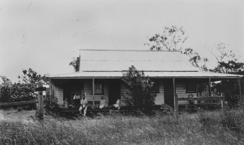 Hervey's Range Hotel, Townsville region, ca. 1930. Group of men and women sit on the verandah of the hotel, a single storey building set relatively close to the ground.